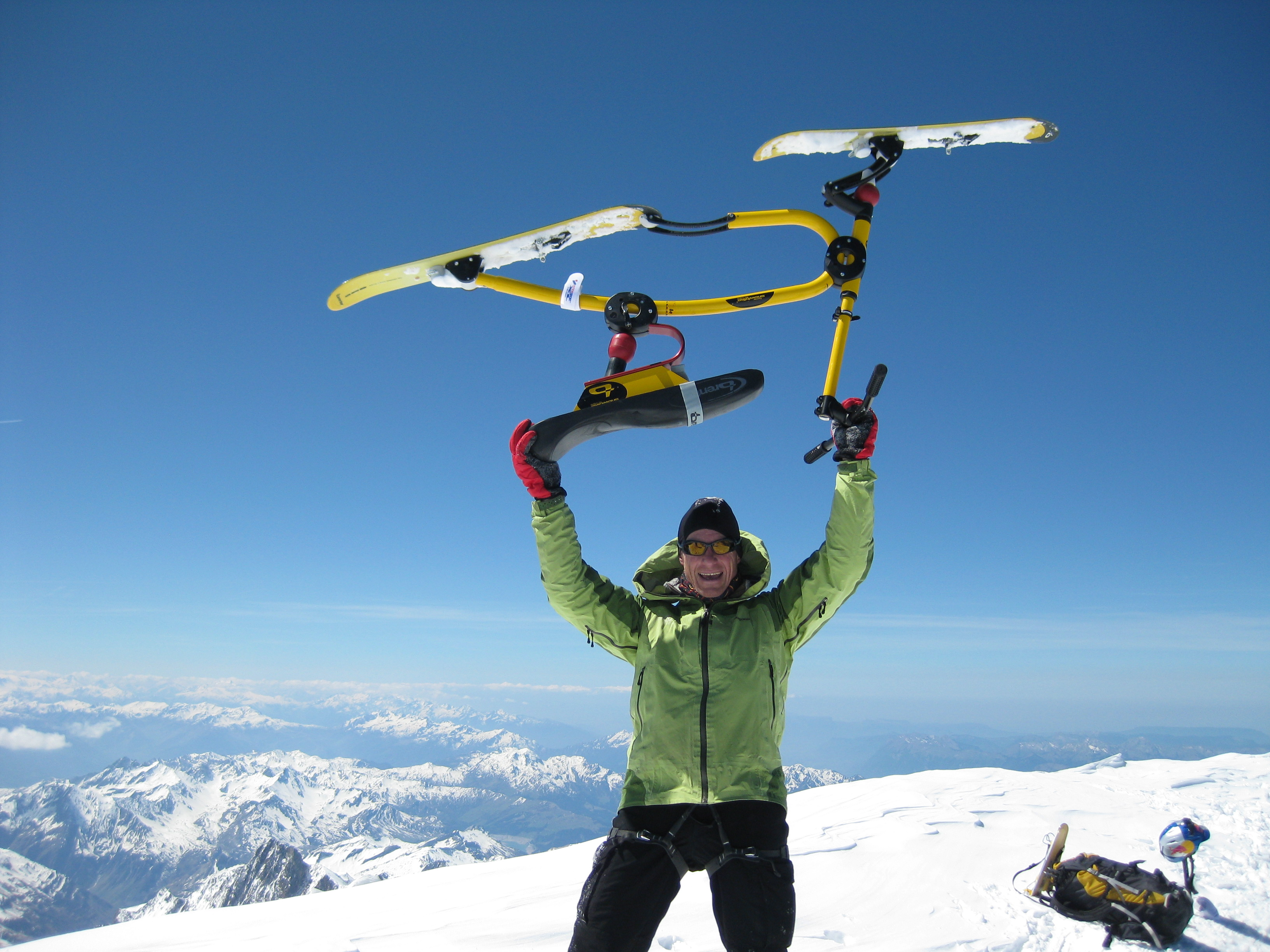 First descent of teh higehs Mounatin in teh ALPS MONT BLANC 2011